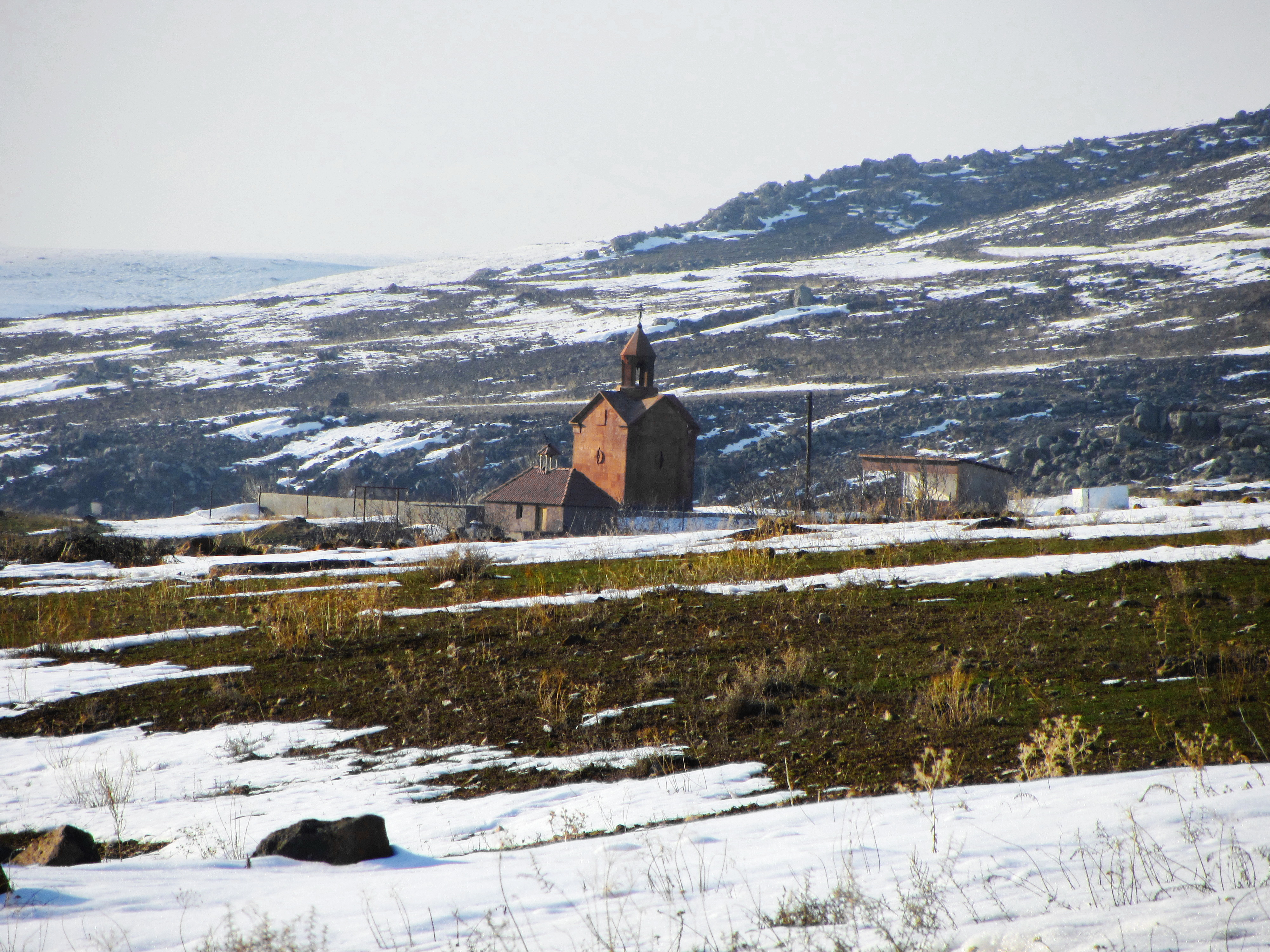 Surb Karapet Church, 17-19 cc.